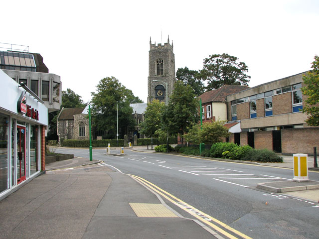 View along Ber Street towards St John de Sepulchre, Norwich